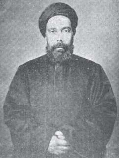 Abdallah Alnadim